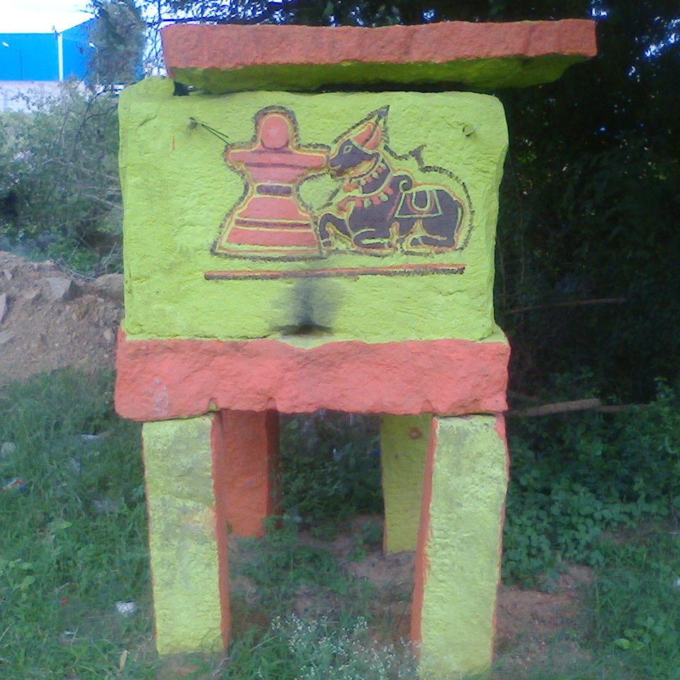 இது கெலமங்கலத்தில் இருந்து ஒசூர் செல்லும் மாநில நெடுஞ்சாலை ஓரத்தில் அமைந்துள்ள ஒரு பழமையான கல்பலகையால் அமைக்கப்பட்ட ஒரு தொட்டியாகும் இதன்மேல் புடைப்புச் சிற்பங்களாக லிங்கமும், நந்தியும் செதுக்கப்பட்டுள்ளன. இது வழிப்போக்கர்களின் தாகம் தீர்க்க அமைக்கப்பட்ட ஒரு தண்ணீர்தொட்டியாக இருக்கலாம். இது போன்ற பல தொட்டிகள் ஒசூர் வட்டாரத்தில் சாலை ஓரங்களில் உள்ள கிரமப்புரங்களில் இன்றும் காணப்படுகின்றன.